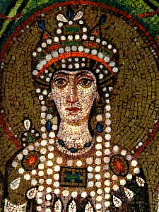 The mosaic of Empress Theodora in Saint Apollinare's Church.